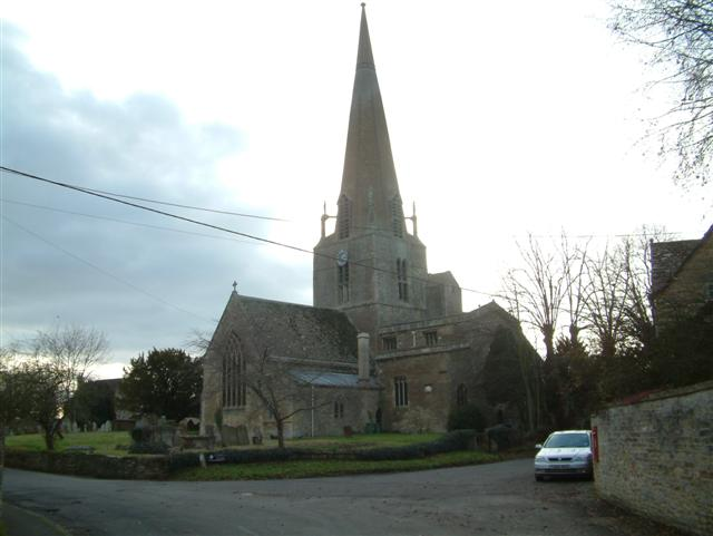 Church of England parish church of St Mary the Virgin, Bampton, Oxfordshire, seen from the northeast